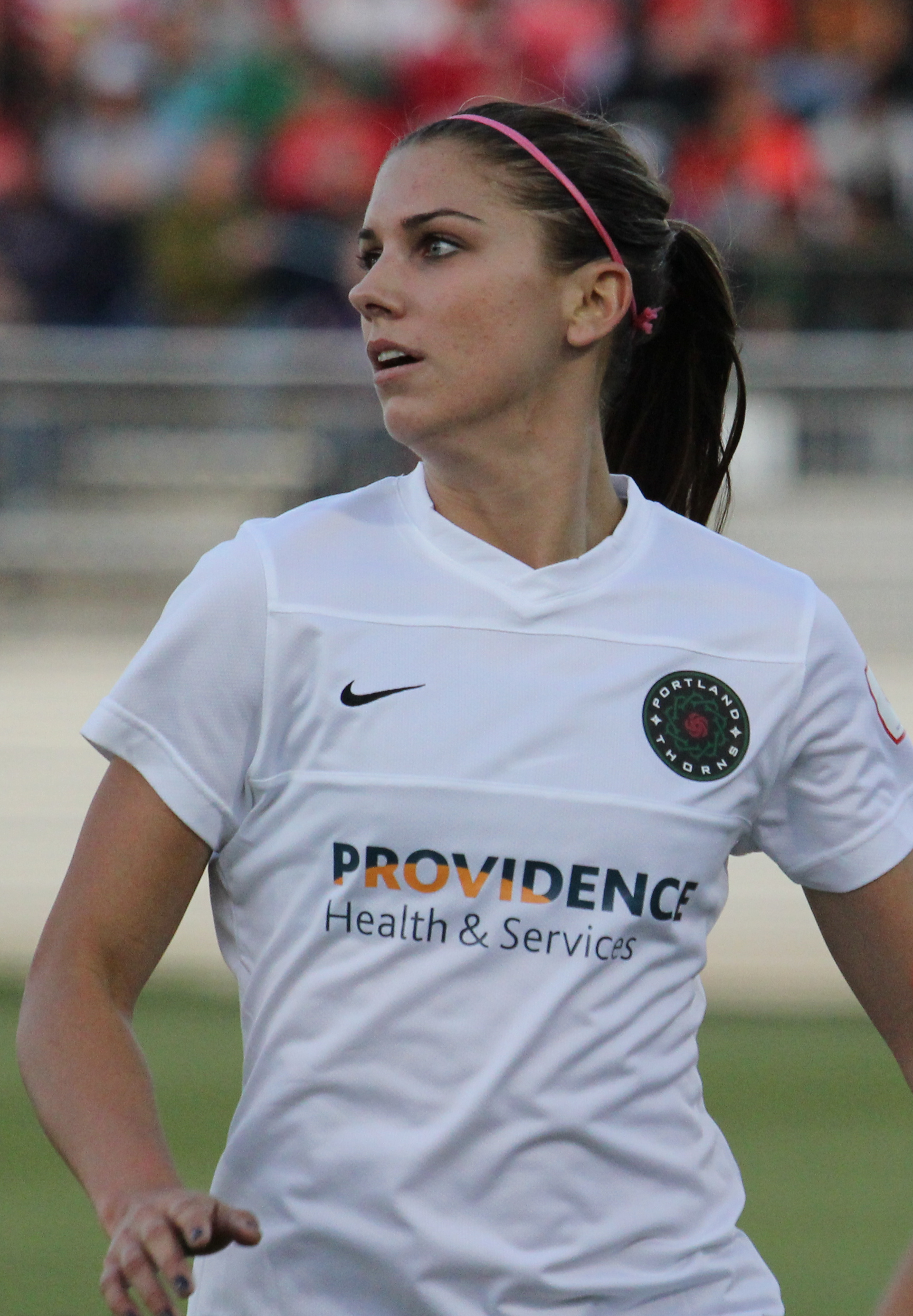 2013-05-04 Spirit - Thorns-109